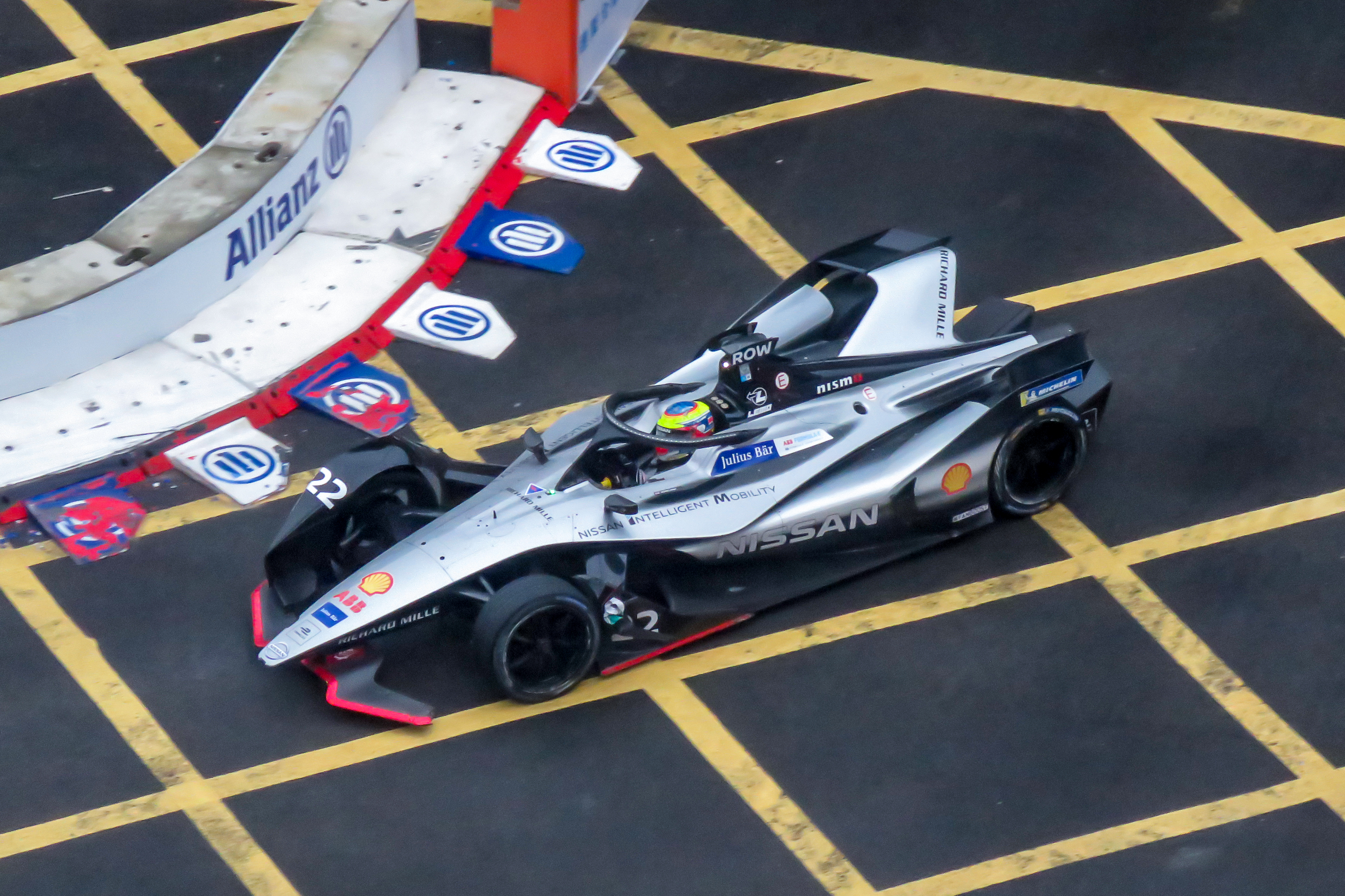 So many troubles during this race...